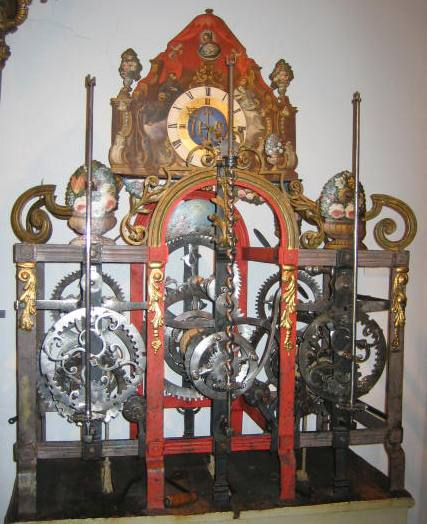 An image of historic clock of the abbey of Fuessen located at the Schwaebisches Turmuhrenmuseum in Meindelheim Germany